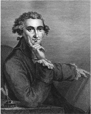 Engraving of Thomas Paine, seated, hand under chin, at desk with inkwell. By William Angus of Islington, 1791.